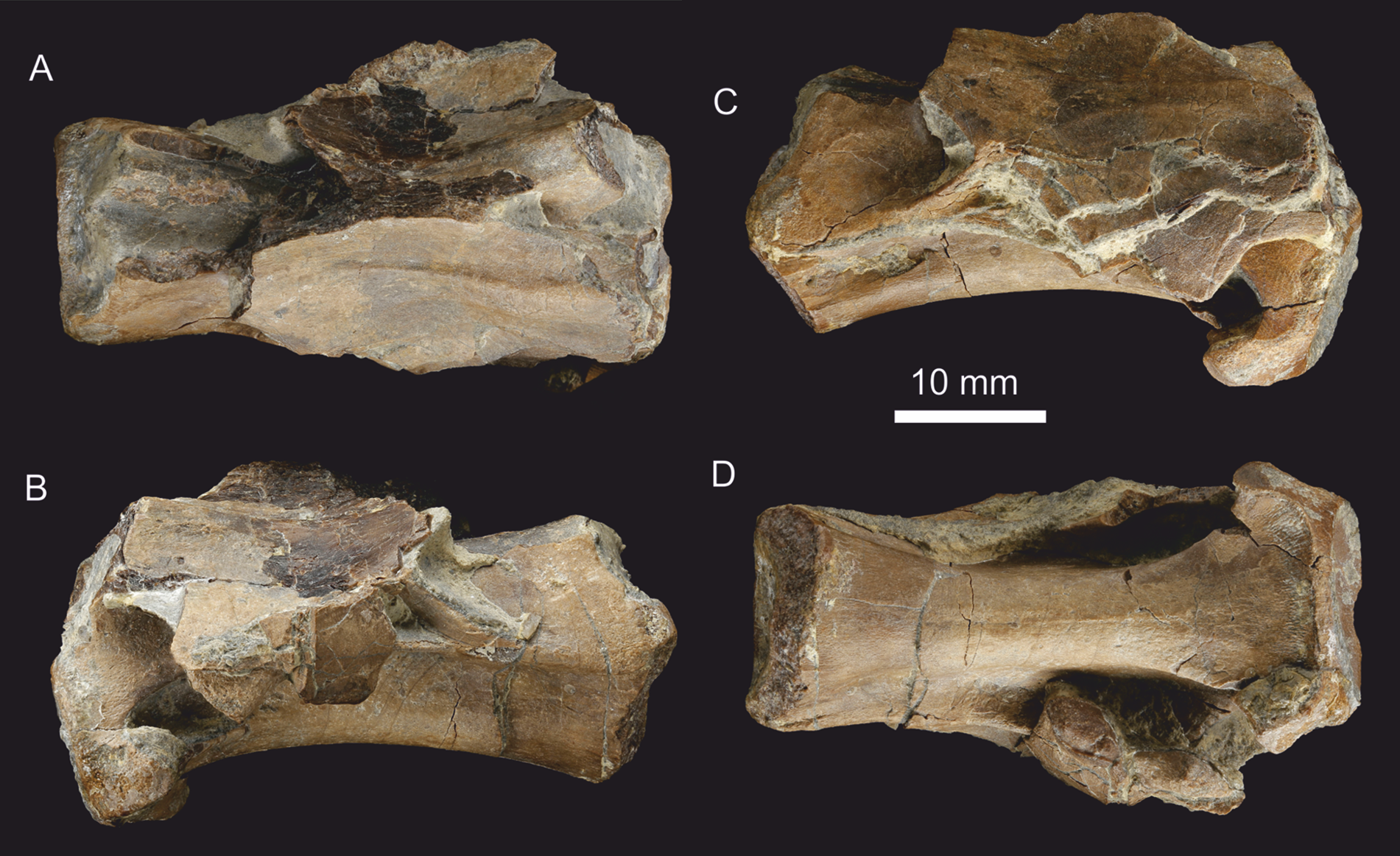 Anterior cervical vertebra of Dracoraptor hanigani holotype skeleton National Museum Wales (NMW) 2015.5G.1–2015.5G.11. Position in neck uncertain, possibly 3 or 4. (A) Dorsal view, (B) left lateral view, (C) right lateral view, (D) ventral view. The neural spine is damaged, but a fresh break suggests it was present prior to collection.